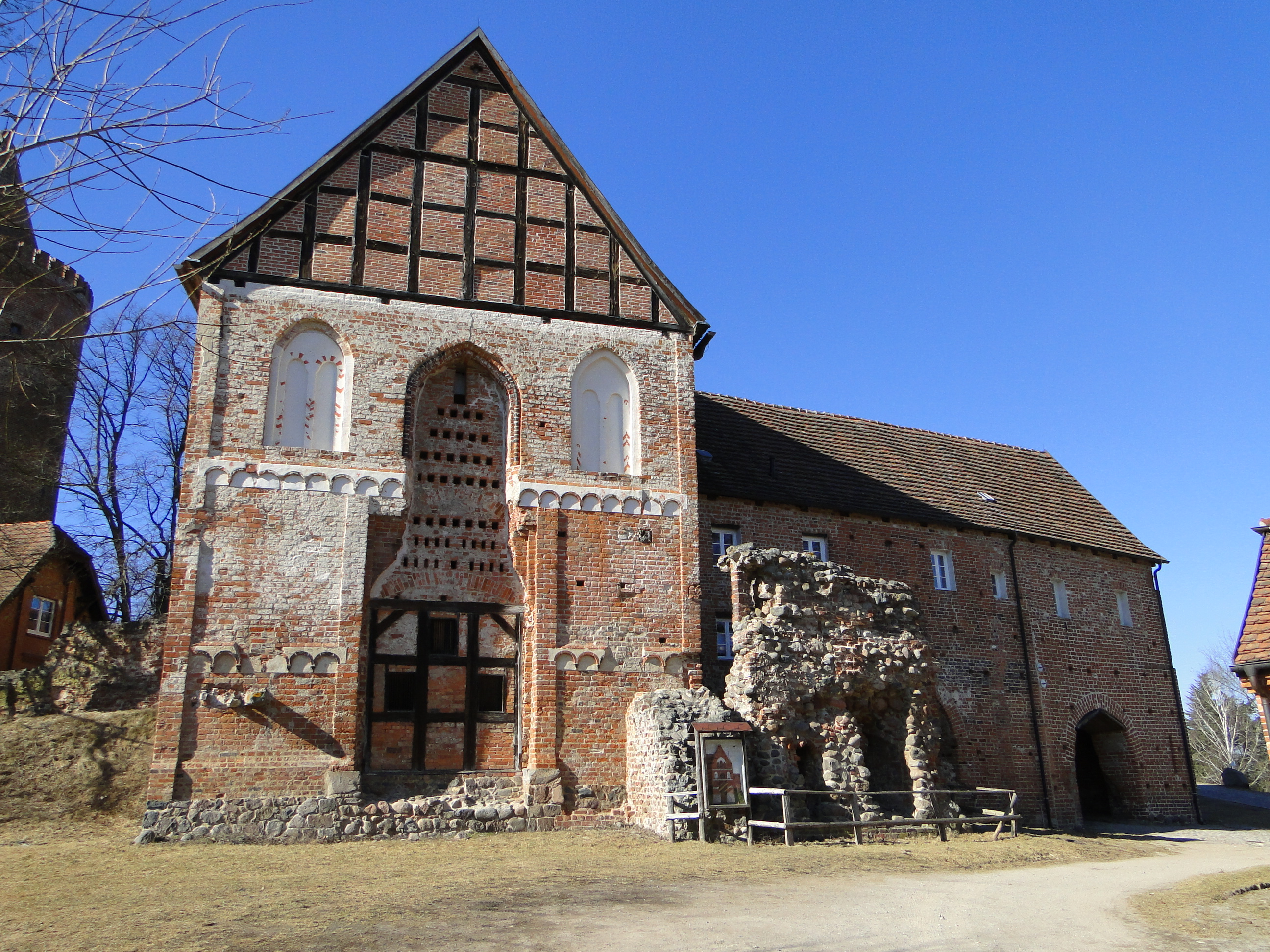 Castle in Burg Stargard, district Mecklenburg-Strelitz, Mecklenburg-Vorpommern, Germany